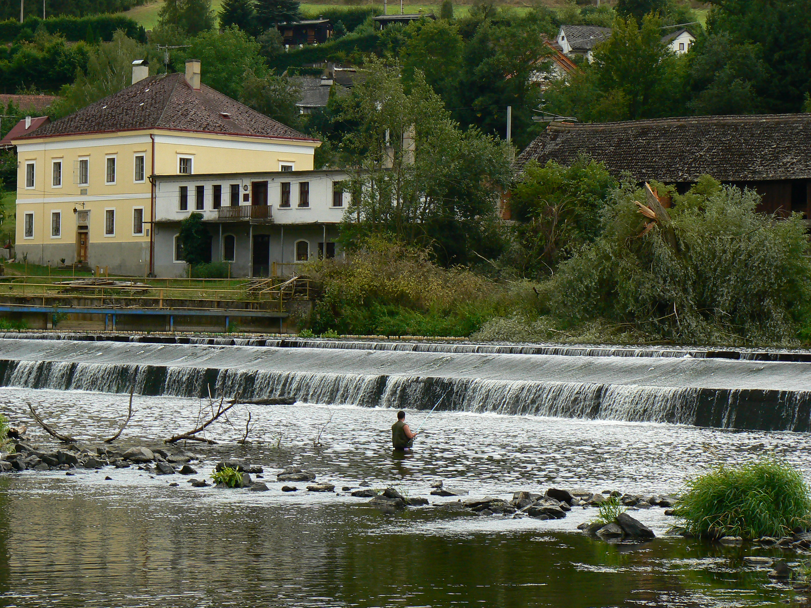 A weir on the river Berounka, Zvíkovec, Czech Republic.